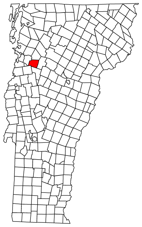 Description: Map of Vermont towns with Richmond highlighted Source: Map created by Jared C. Benedict on 26 March 2004. Copyright: © Jared C. Benedict.